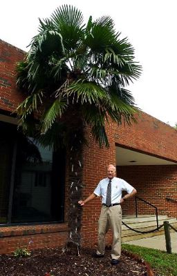 Chinese Windmill Palm tree in Solomons, Maryland